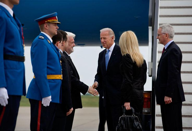 Vice President Joe Biden is greeted by Serbian Prime Minister Mirko Cvetković on his arrival in Belgrade, Serbia, Wednesday, May 20, 2009.